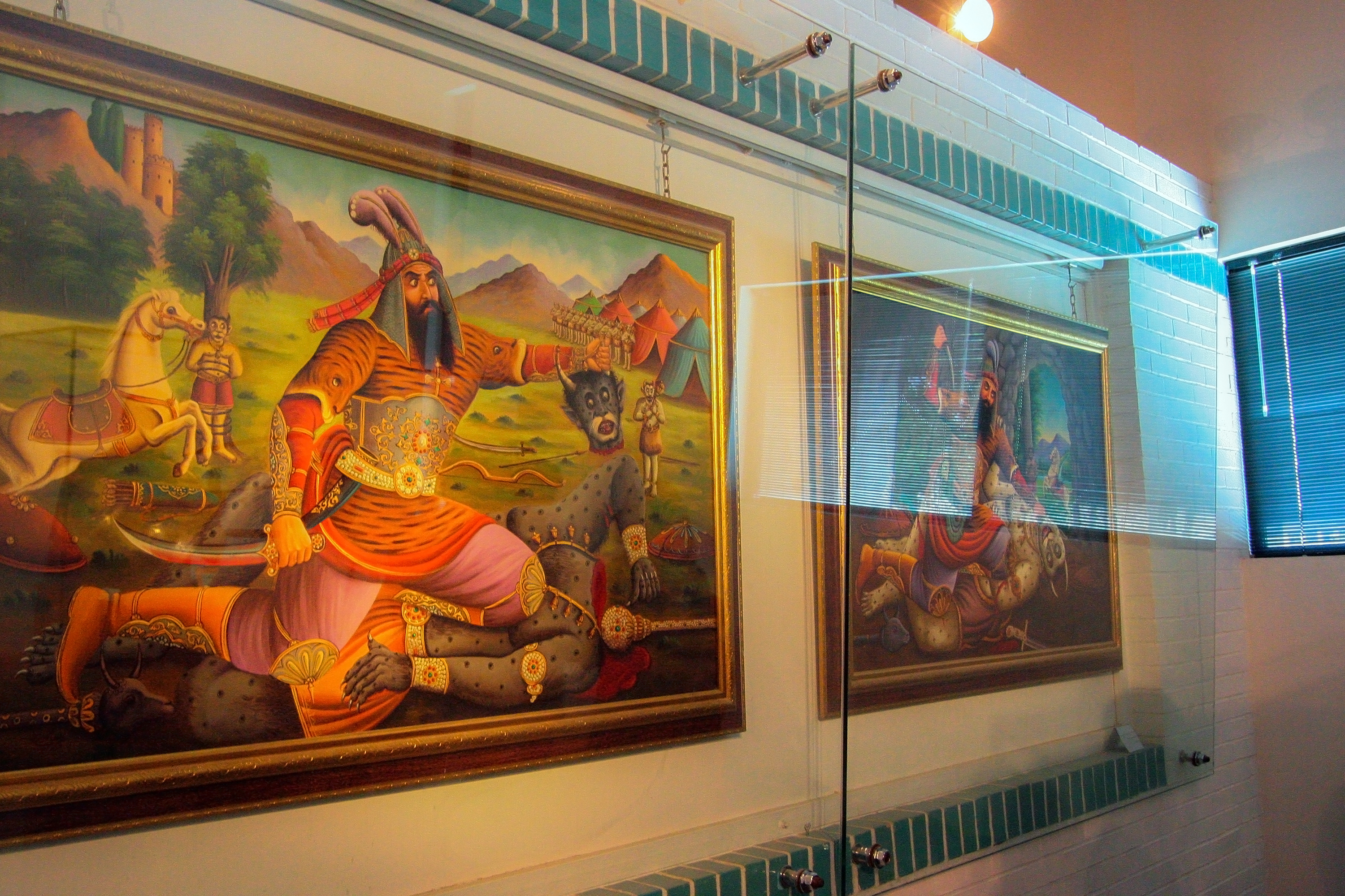 The Shahnameh, also transliterated as Shahnama is a long epic poem written by the Persian poet Ferdowsi between c. 977 and 1010 CE and is the national epic of Greater Iran.